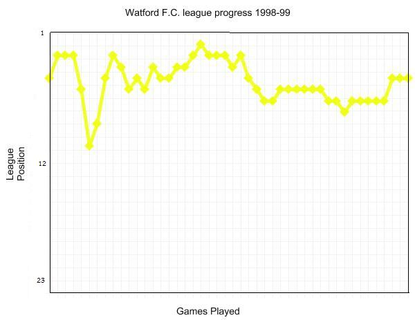 Graph depicting Watford F.C.'s league progress over the 1998–99 season.